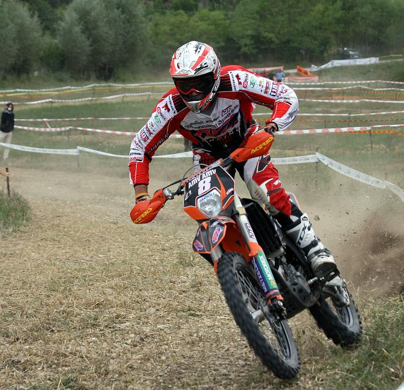 Mike Hartmann riding his KTM E1 bike at the 2008 World Enduro Championship Grand Prix of Italy in Piediluco.